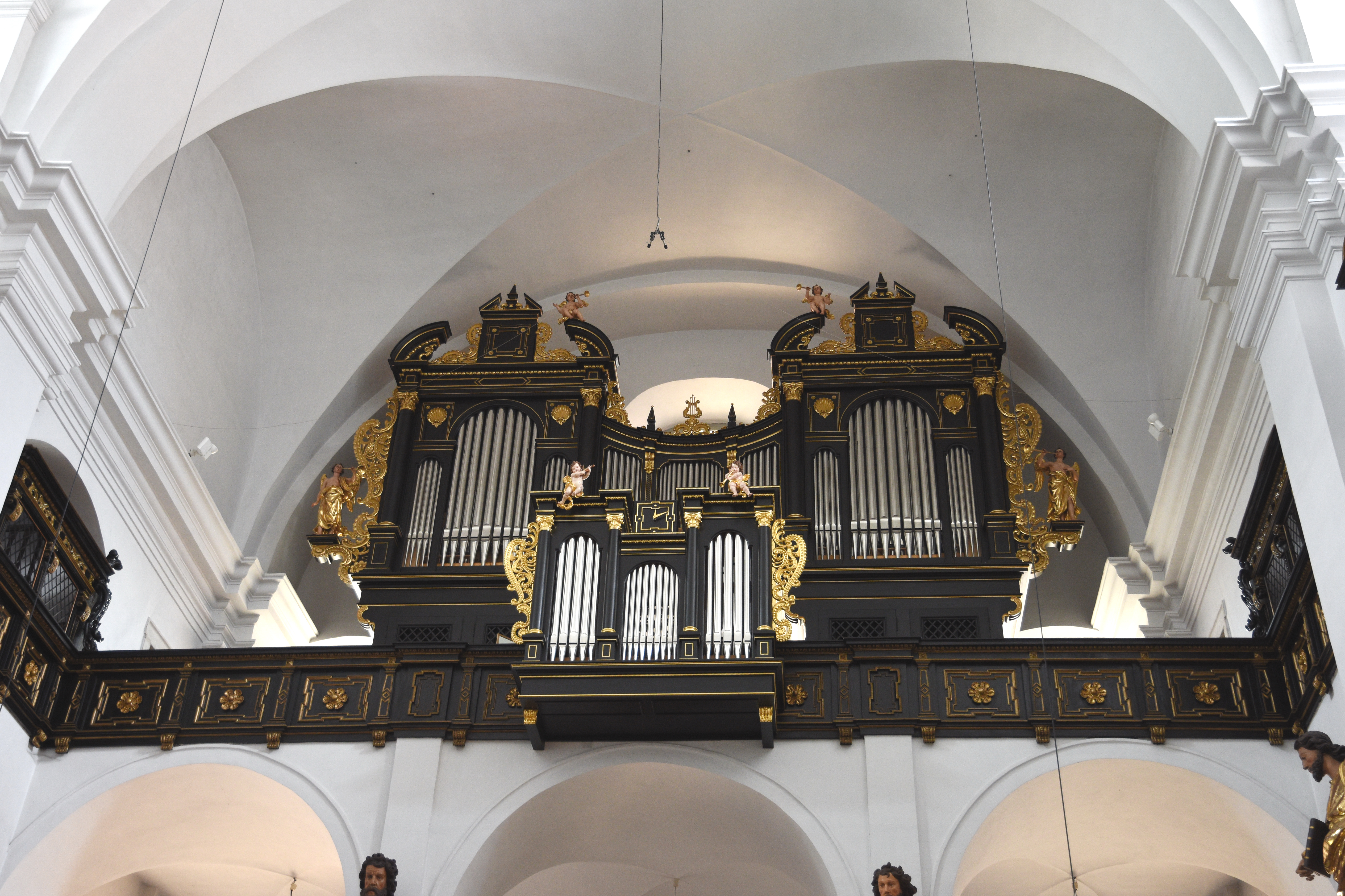 St Xaver Leoben